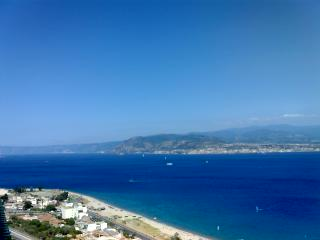 Calabria seen from Messina